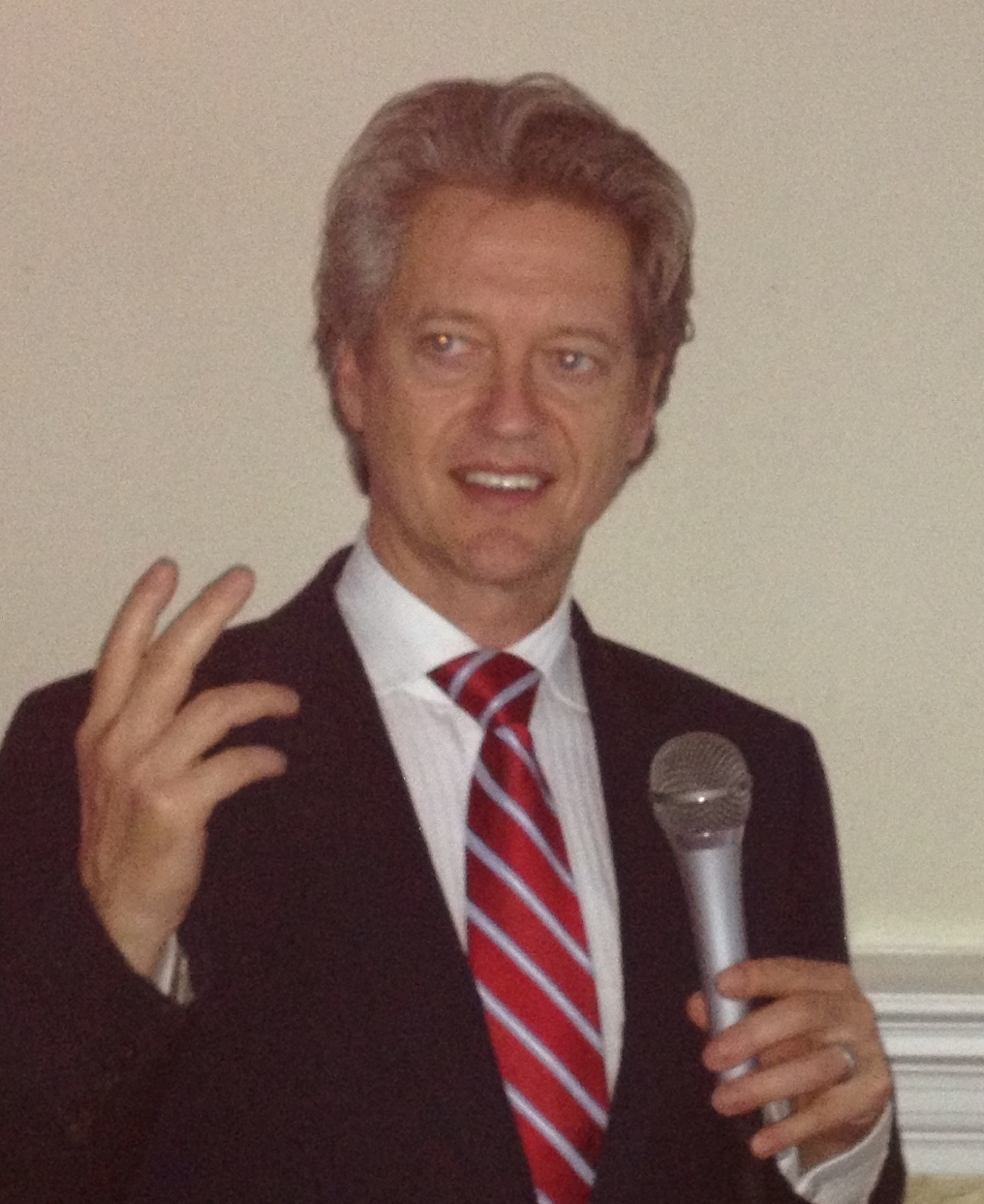 Laban Coblentz speaking